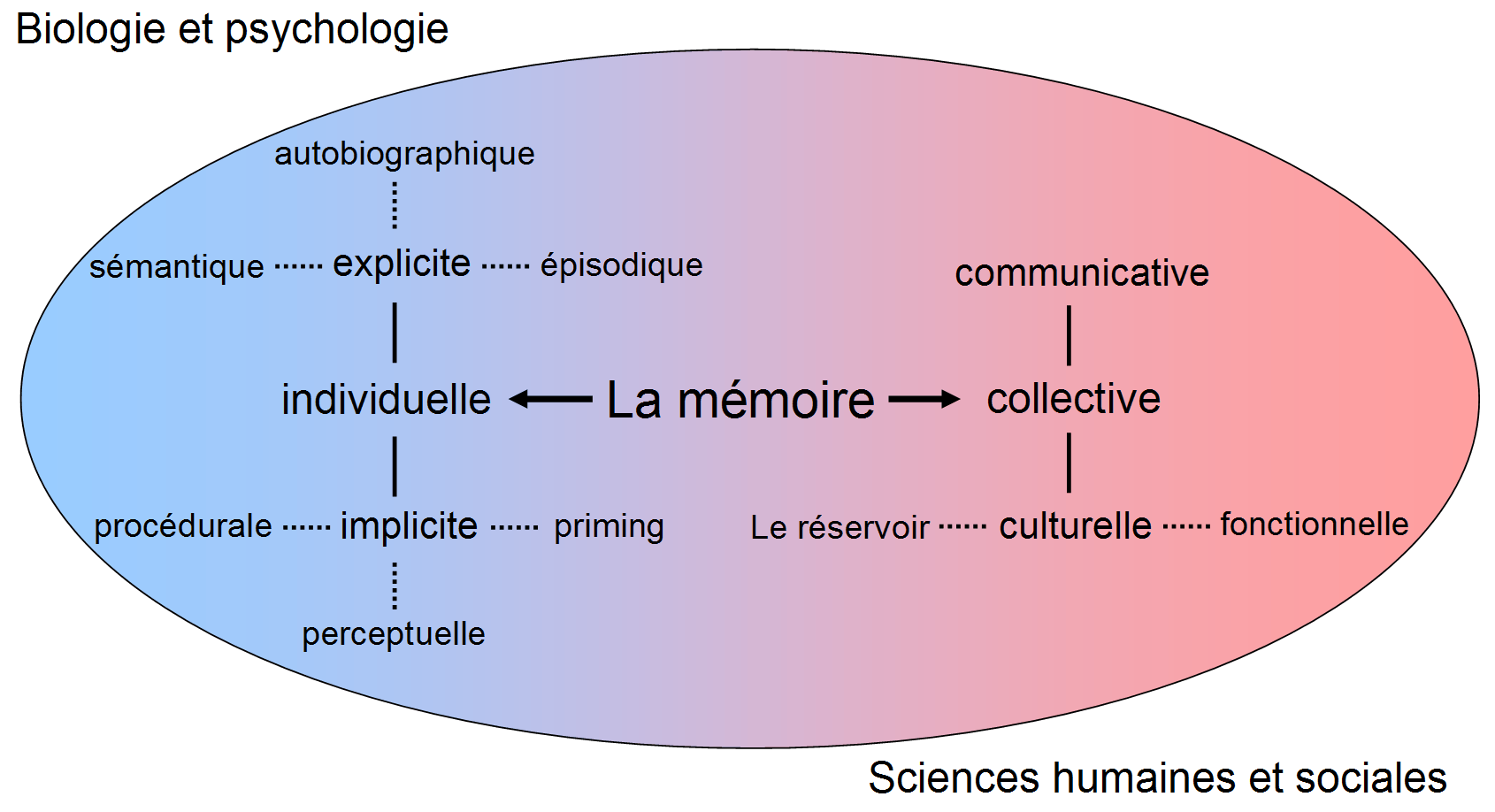 This schema gives a detailed overview of terms commonly used in literature on memory, both individual and collective.